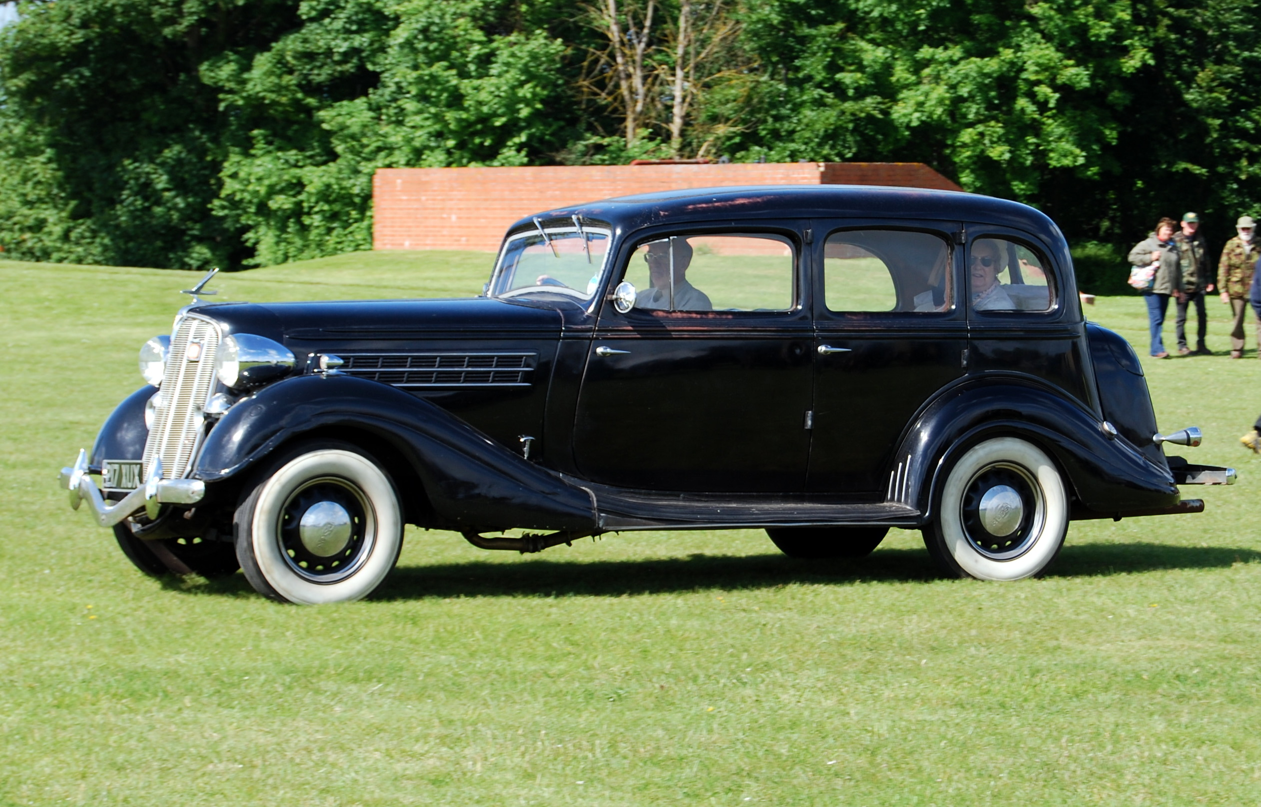 Photo ref; DSC0490-2012